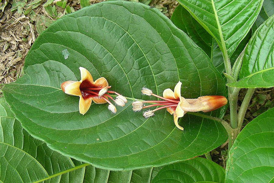 Also known as Madre de Aguas for its preference for drainage headwaters. Here in central Colombia. In context at